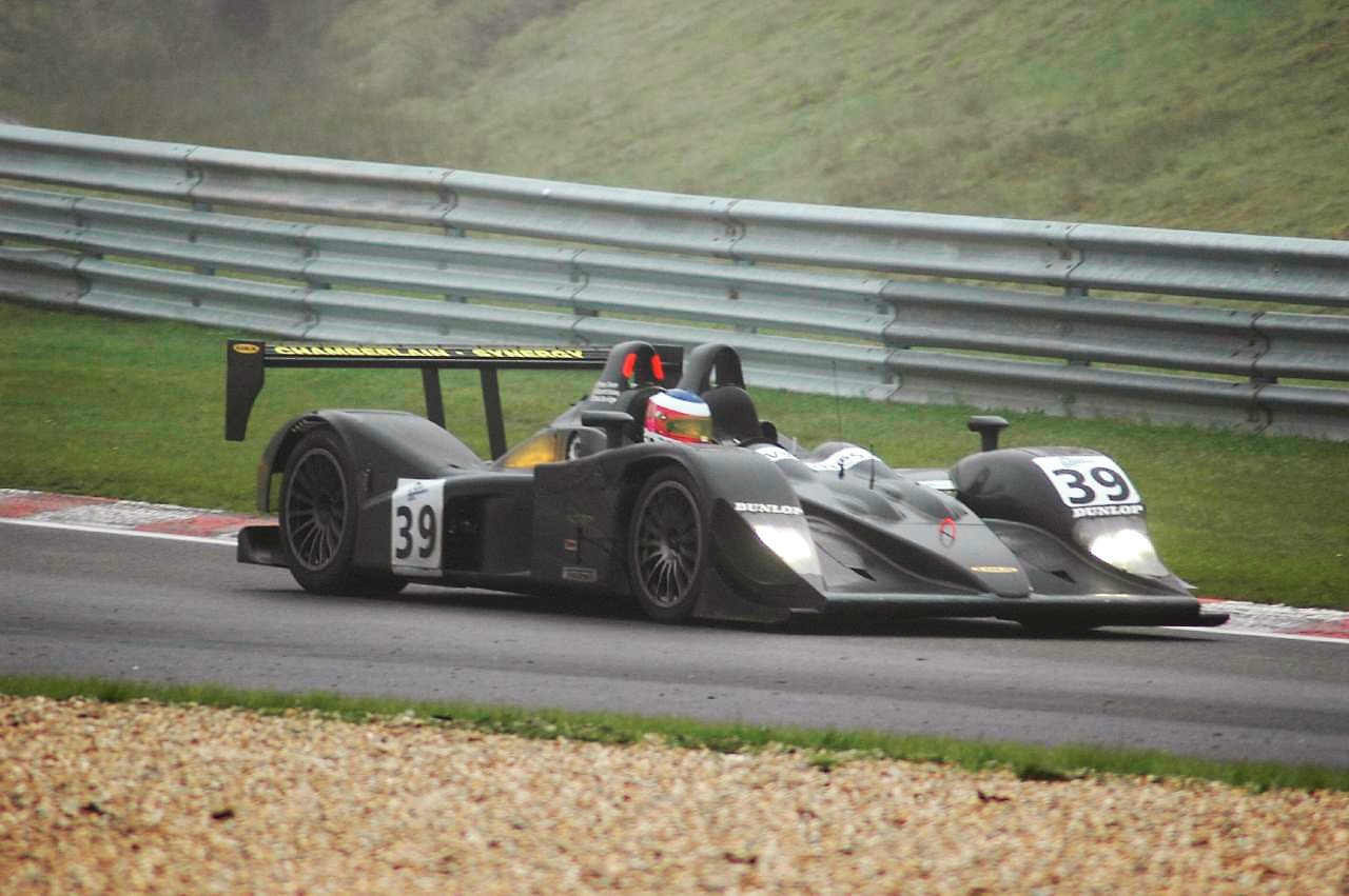 Chamberlain-Synergy Motorsport's Lola B05/40 at the 2005 1000km of Spa.